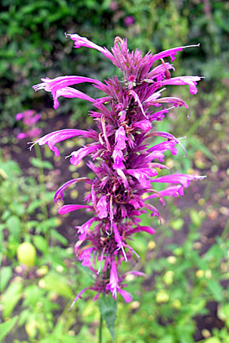 Originating in Mexico and the southern U.S. Under the name of Toronjil Morado it finds folk medicine application for stomach pains. Jardin Etnobotanico, Cuernavaca, Mexico. In context at